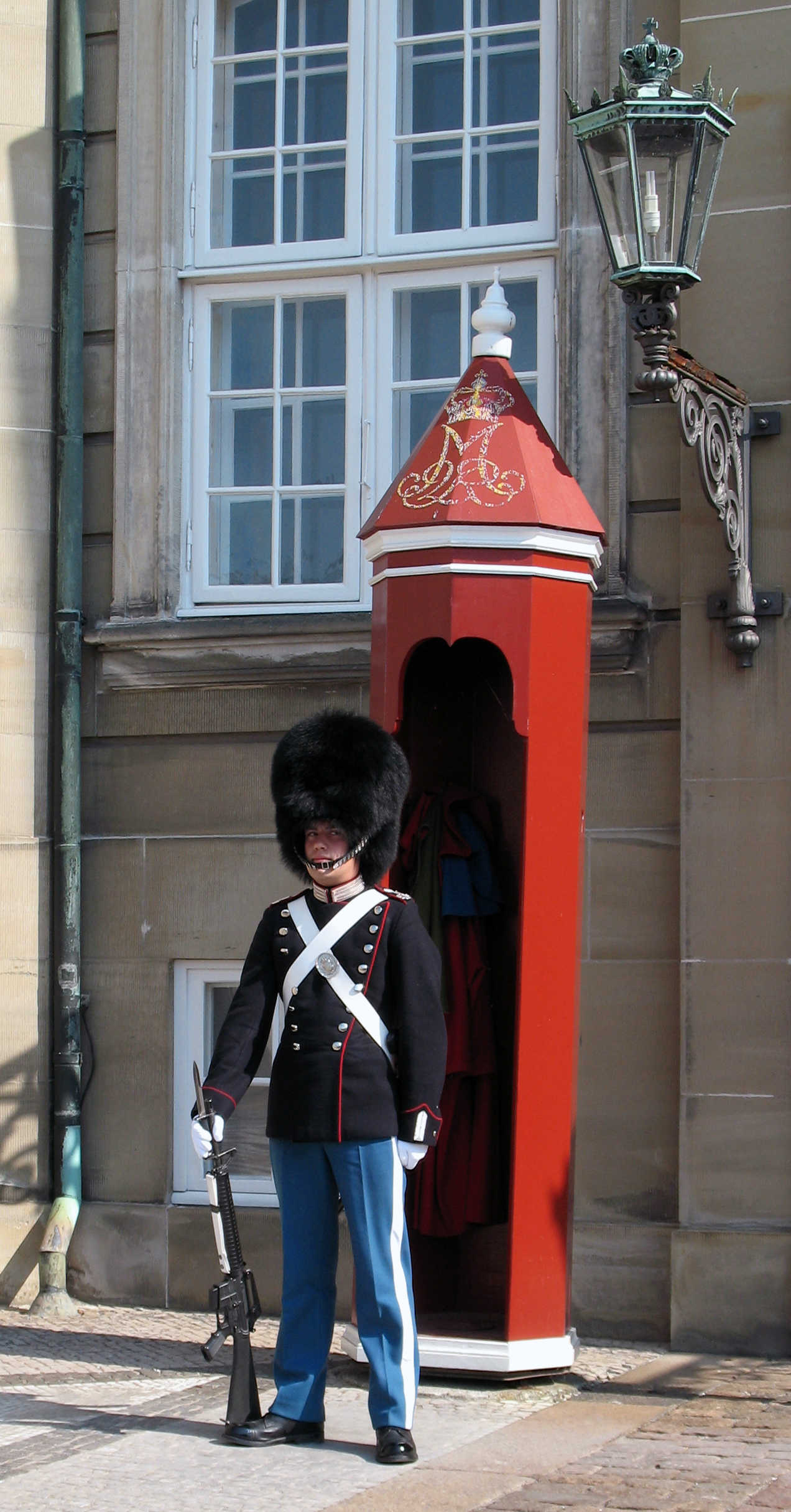 Danish Royal Guards (Den Kongelige Livgarde) Guard Company (Vagtkompagniet) soldier at the Amalienborg Palace in Copenhagen.